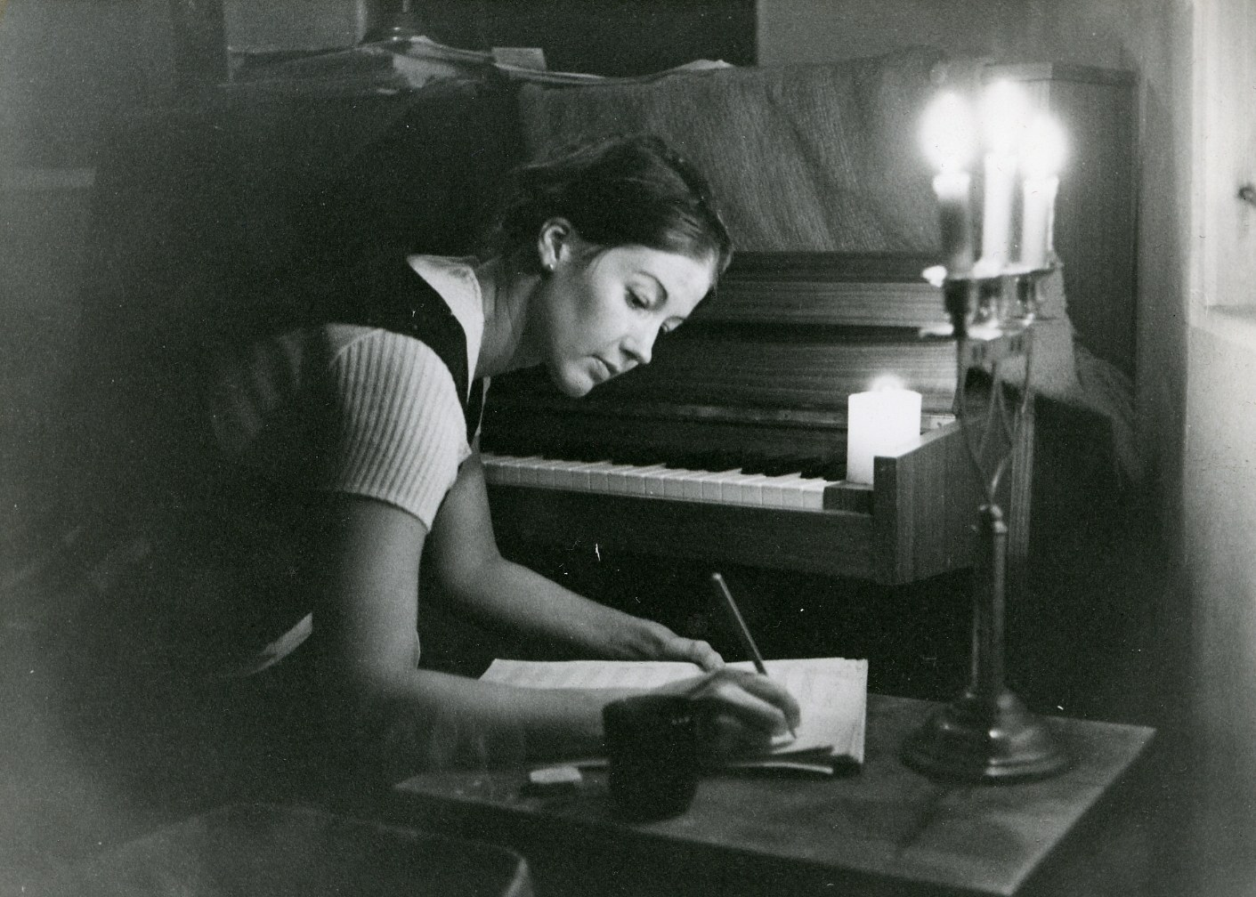 Photograph of the Finnish composer Ann-Elise Hannikainen (1946–2012) in Kuhmoinen.